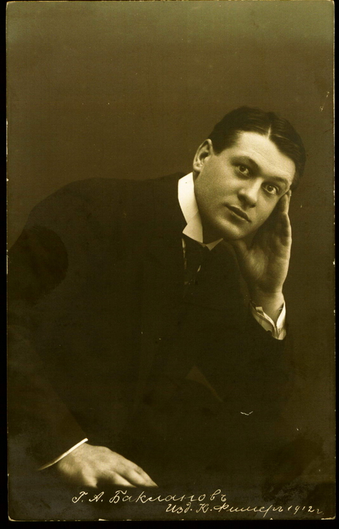 Photo of the singer Georgy Baklanov